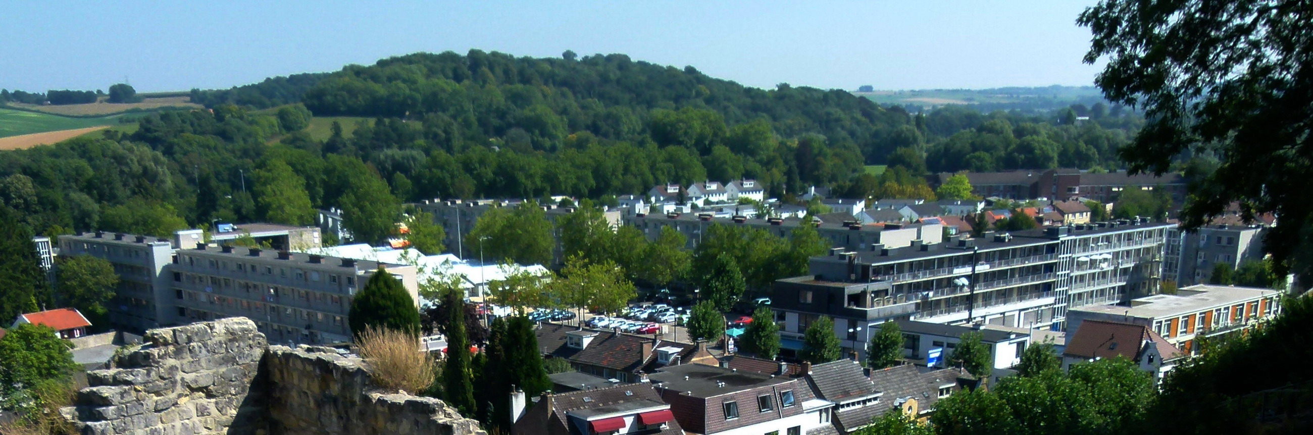 Valkenburg, Limburg, the Netherlands. View towards the Northeast from Valkenburg Castle.